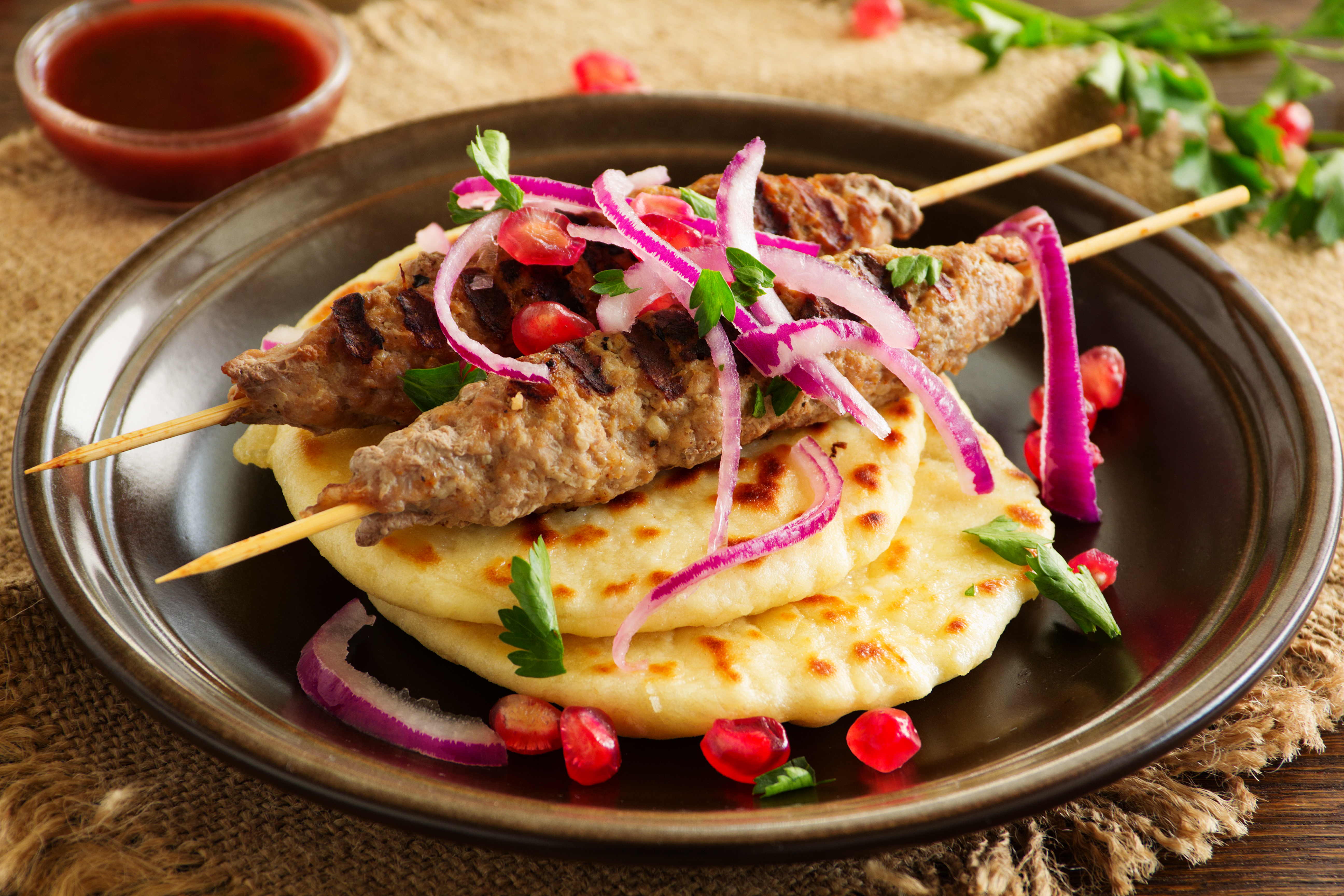 Kebab of lamb, with homemade bread.